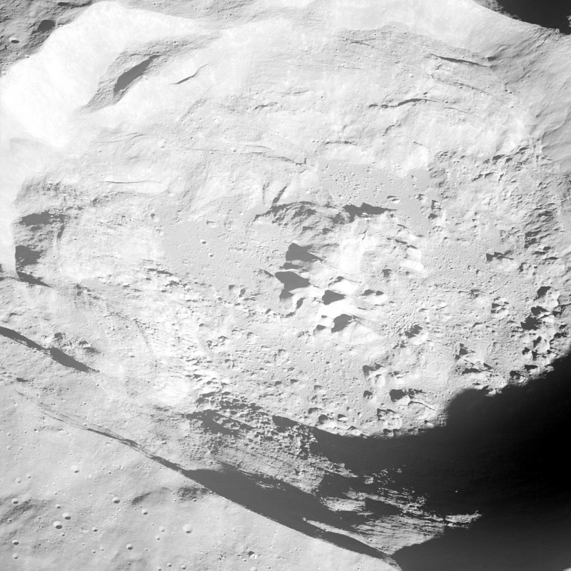 Close up of Crookes's chaotic floor: AS8-13-2318.